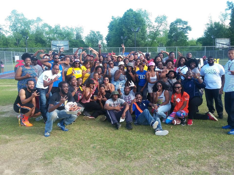 NI Chapter of Phi Mu Alpha Sinfonia, Lambda Xi Chapter of Sigma Alpha Iota, Zeta Eta Chapter of Kappa Kappa Psi, and Epsilon Chi Chapter of Tau Beta Sigma